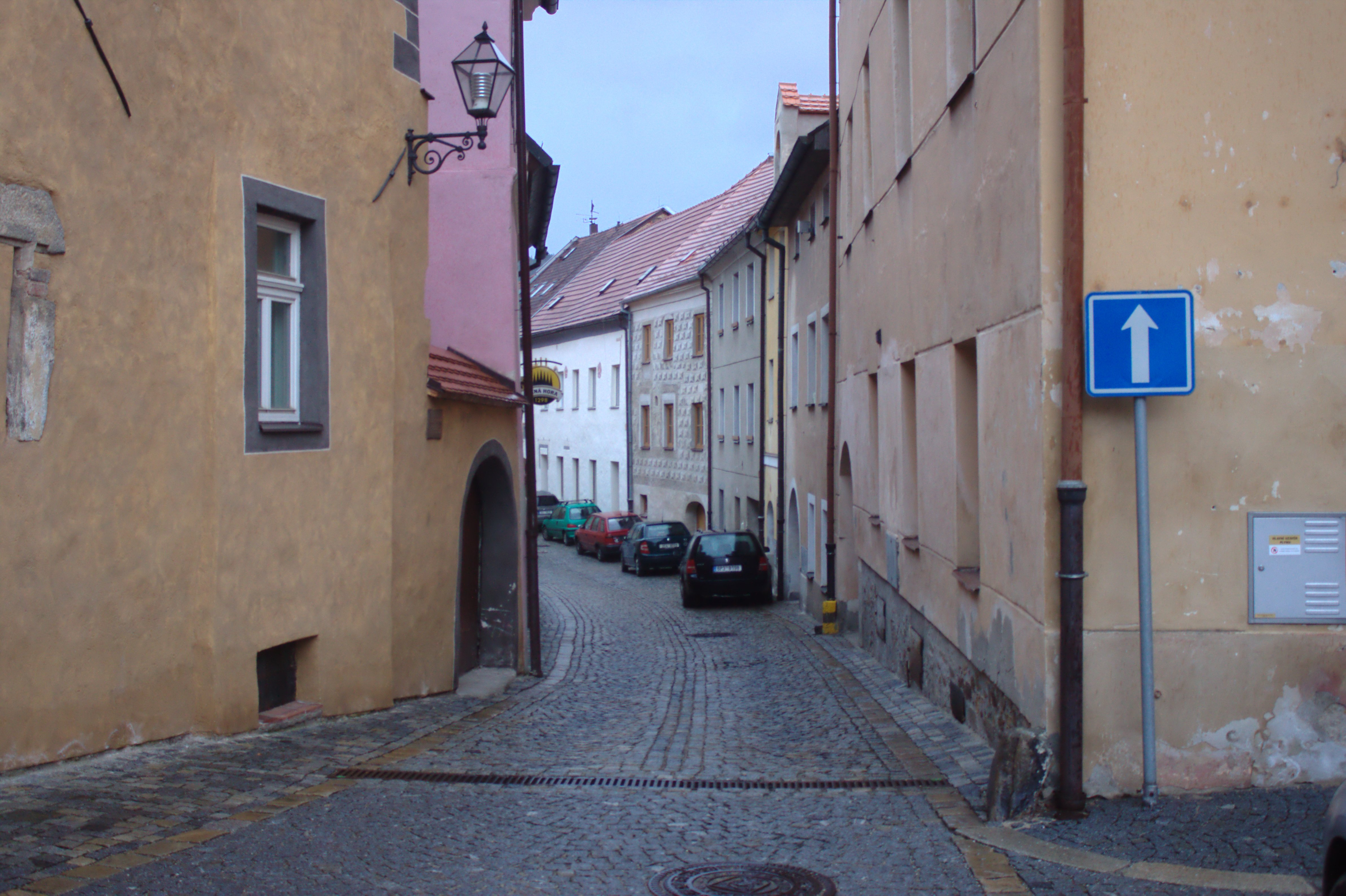 This image was created as a part of Editaton Prachatice (Czech).